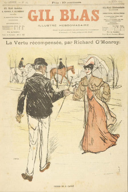 Cover of a 1903 issue of Gil Blas depicting a scene from La Vertu récompensée, a short story by Richard O'Monroy (1849-1916)